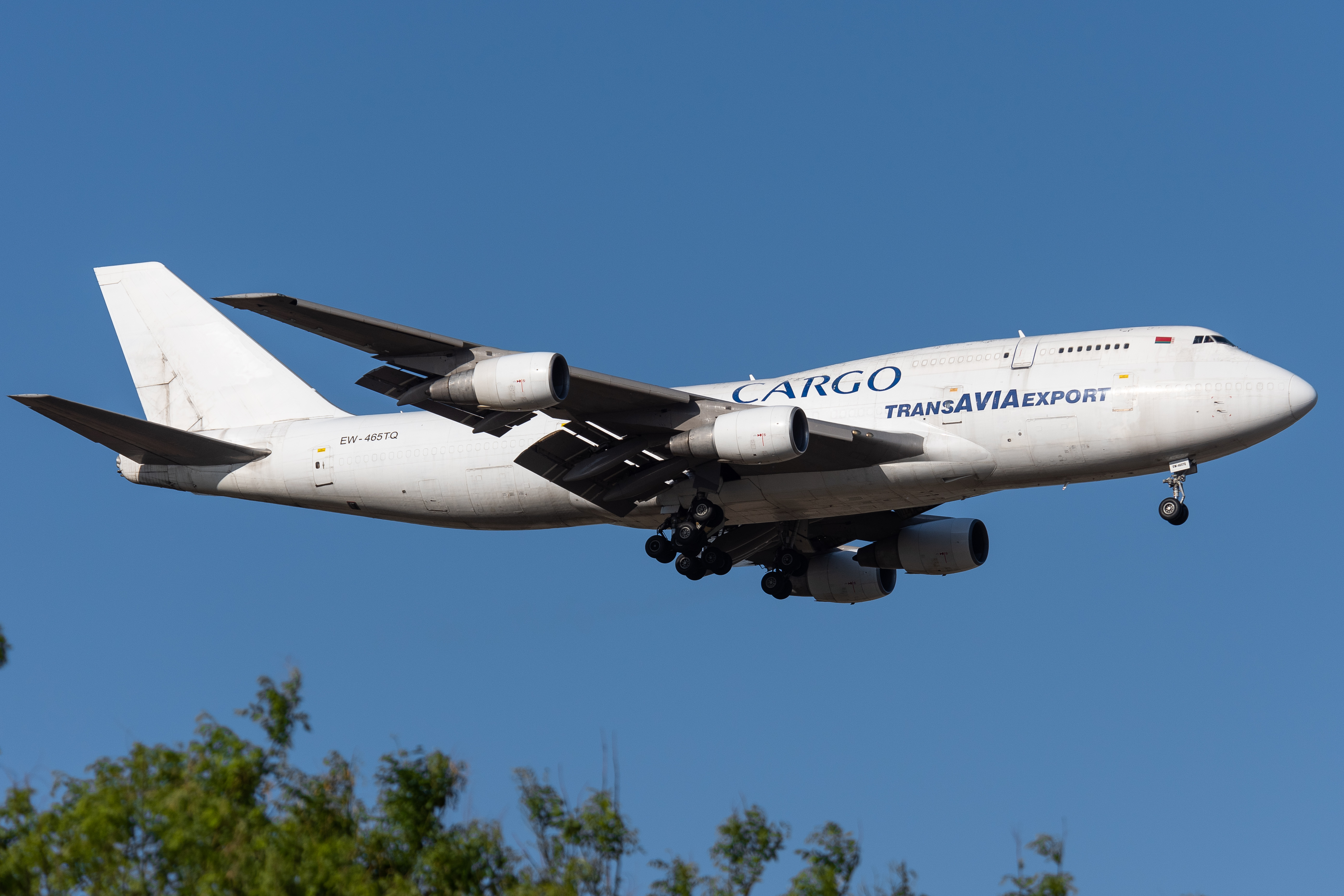 TXC9811 from Minsk. Former OO-SGD, the last 747-300 ever built, finally paid a visit to Beijing! This 743 doesn't have wingtip antenna – relocated to the vertical stabilizer. And it has a 744-like wing/fuselage fairing (this feature first used by SU-GAL). But the engines are still CF6-50E2, instead of CF6-80C2.